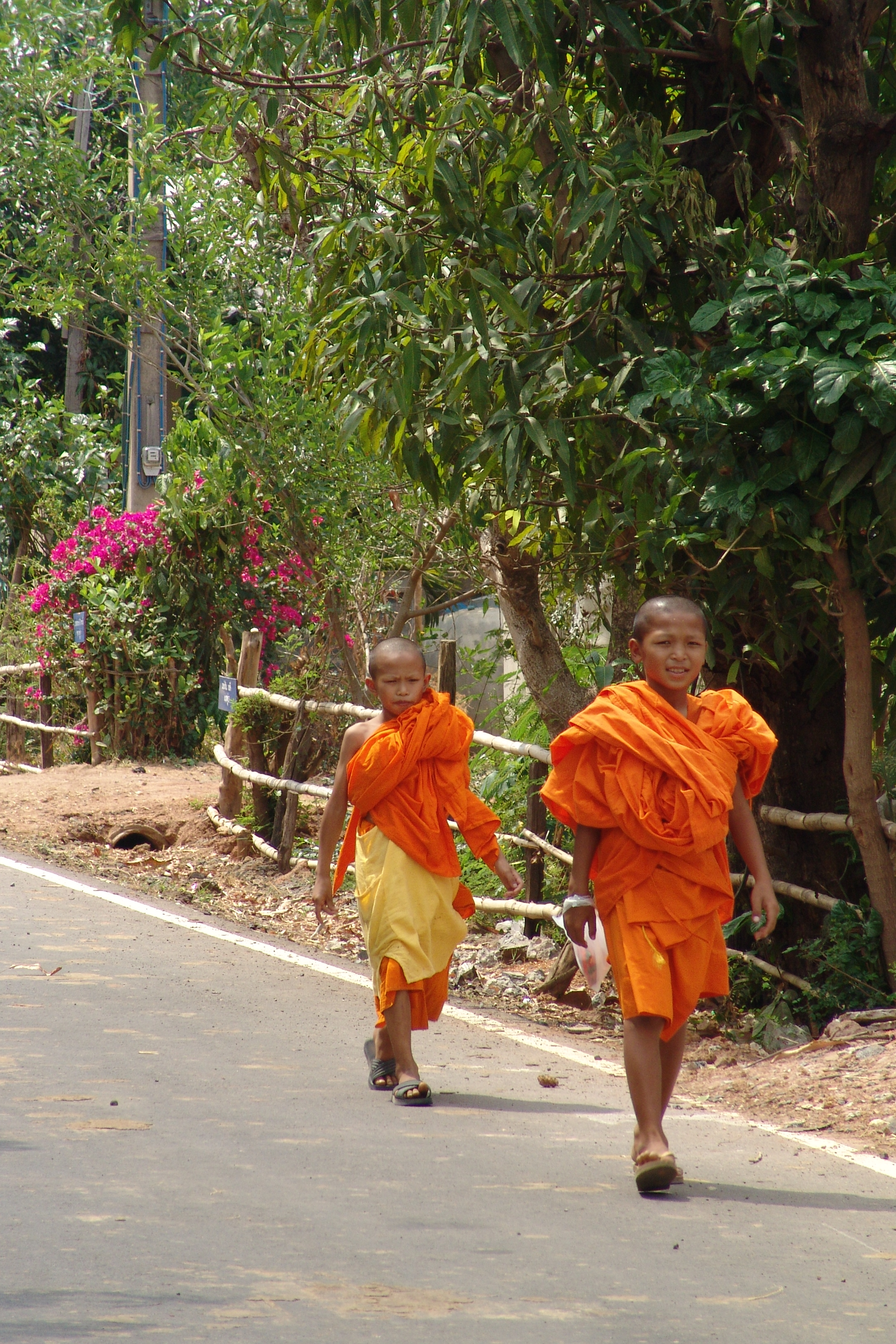 Novice monks, Thailand, Isaan, 2005. Own work